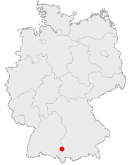 Map of Germany showing Memmingen